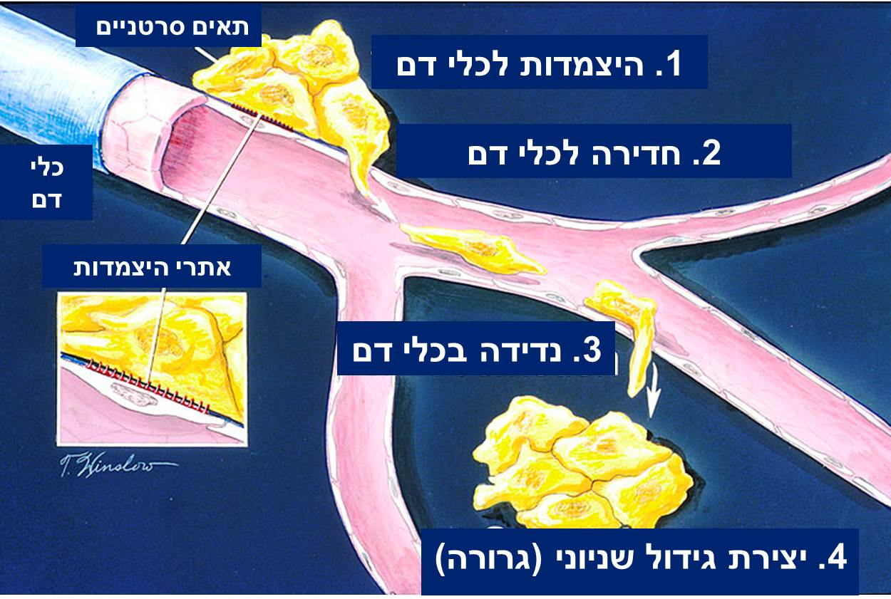 Title: Graphics: Illustration: Metastasis: How Metastasis Occurs Description: This is a schematic drawing of the stages of metastasis 1) attachment 2) local breakdown 3) locomotion 4) secondary tumor. Subjects (names): Topics/Categories: Graphics -- Illustration Type: Color Print. Black & White Print. Color Source: National Cancer Institute Author: Unknown photographer/artist AV Number: AV-8808-3617 Date Created: August 1988 Date Entered: 1/1/2001 Access: Public